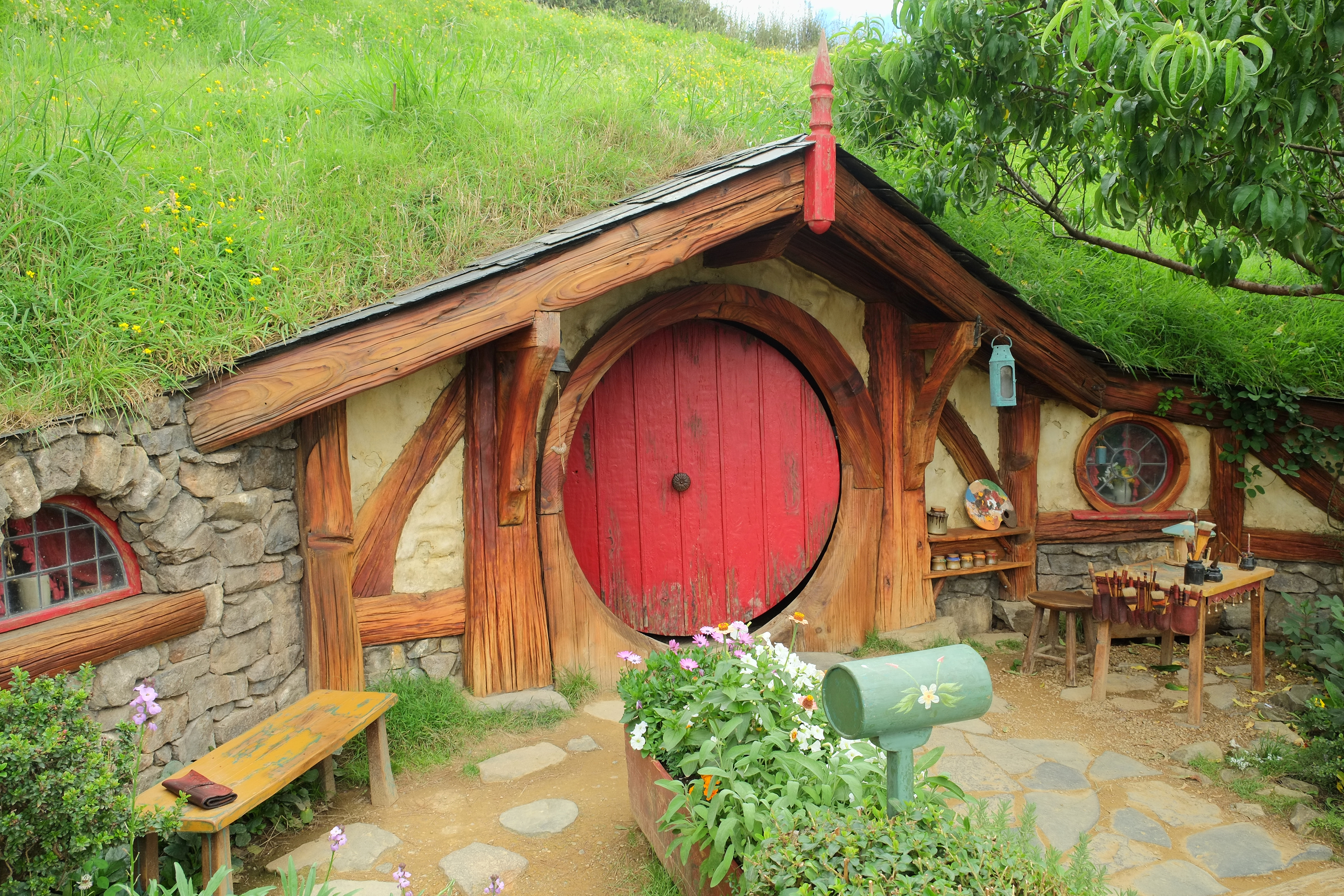 Artist's hobbit hole with red door and wooden gable; paint brushes on a table outside (Hobbiton movie set)